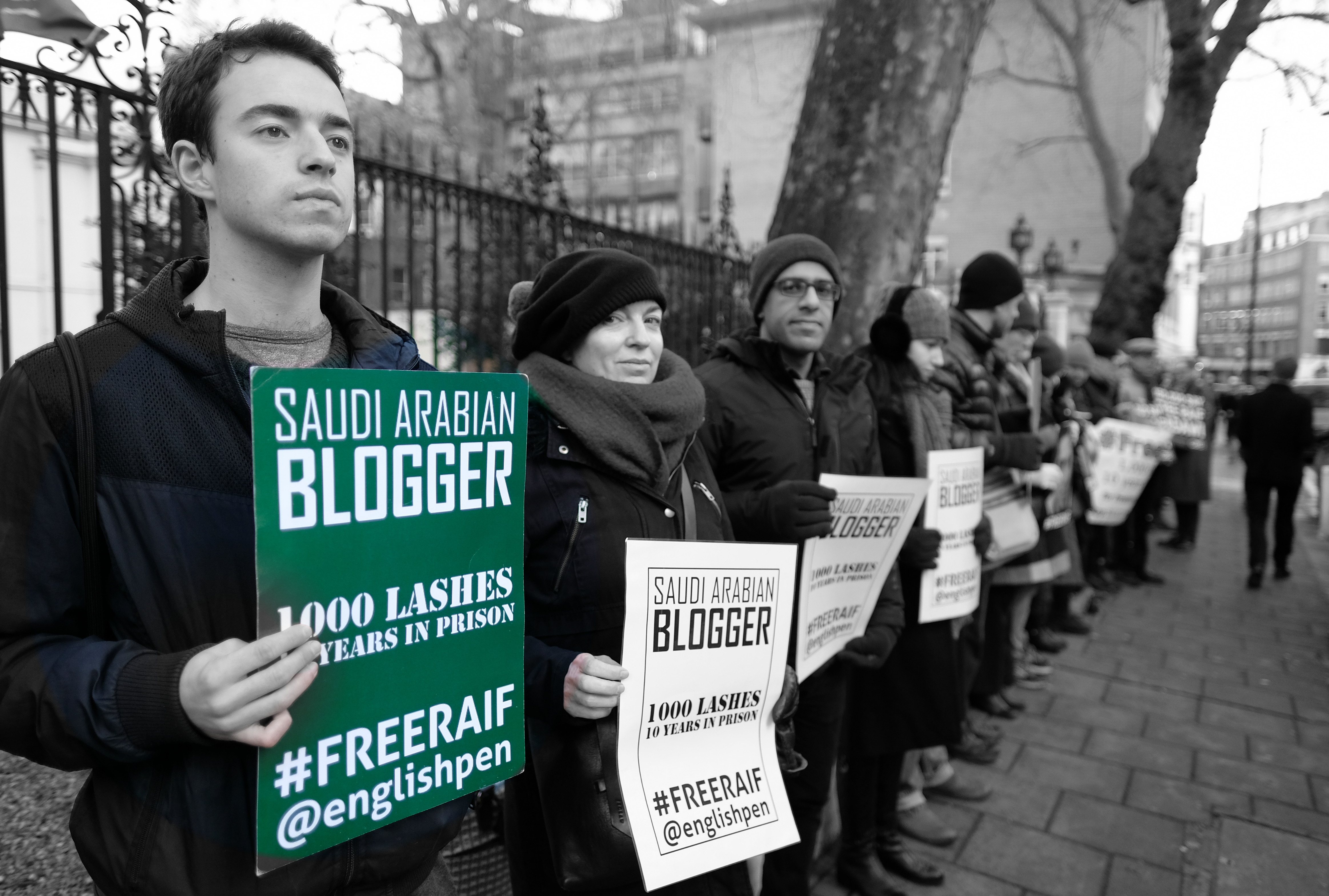 A protest outside the Saudi Arabian Embassy in London on Friday 13 January 2017 to mark Raif Badawi's thirty third birthday. Badawi is a Saudi writer and activist who has been detained since 2012 for saying what he thinks.